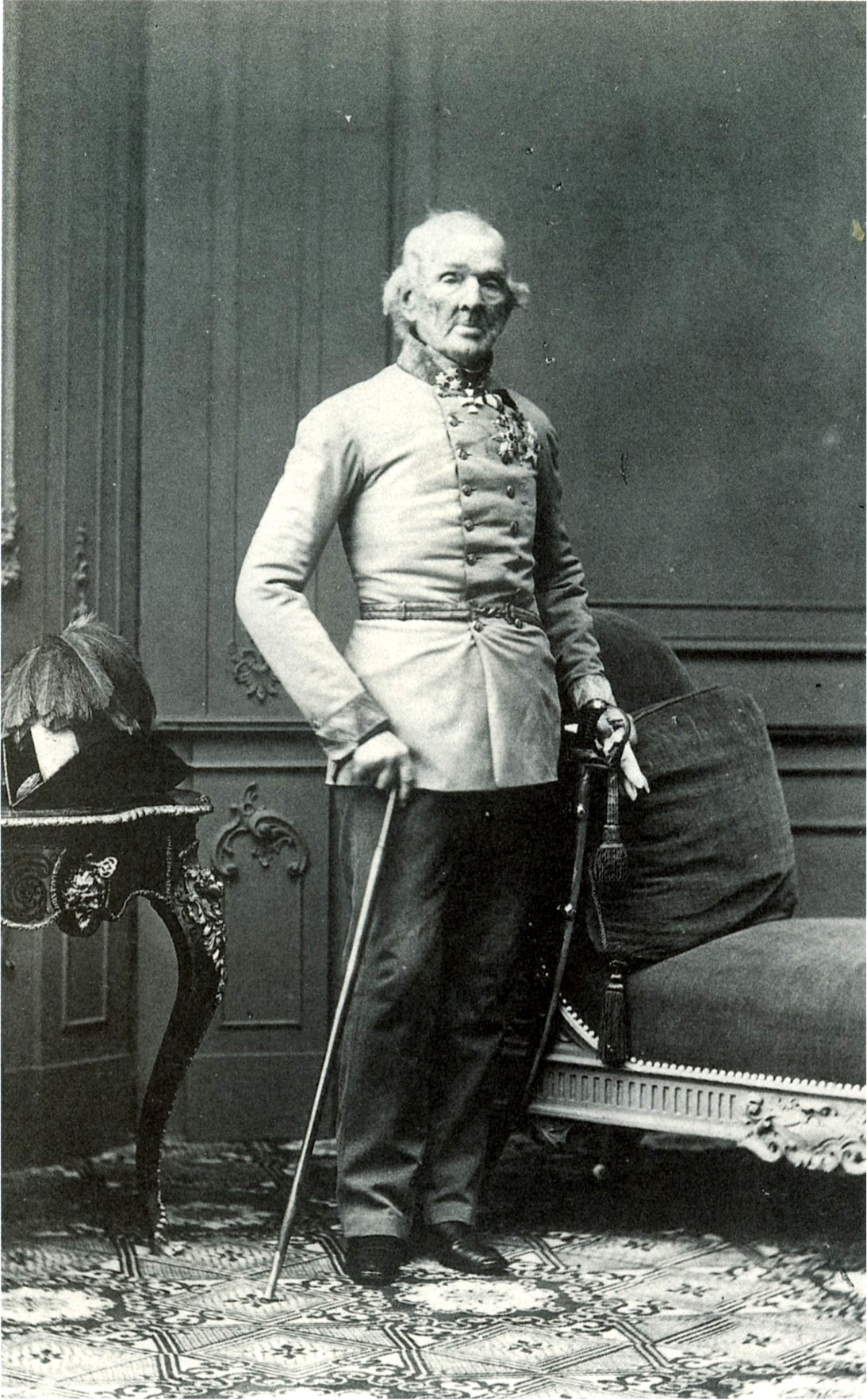 The (austrian) General Ludwig Graf von Wallmoden-Gimborn